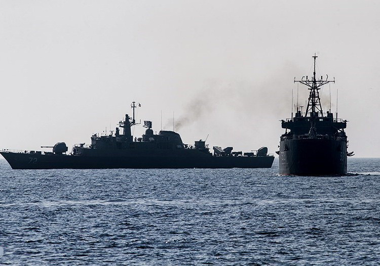 Velayat 94 Military exercise that hold in February 2016 in the range of Strait of Hormuz and northern Indian Ocean